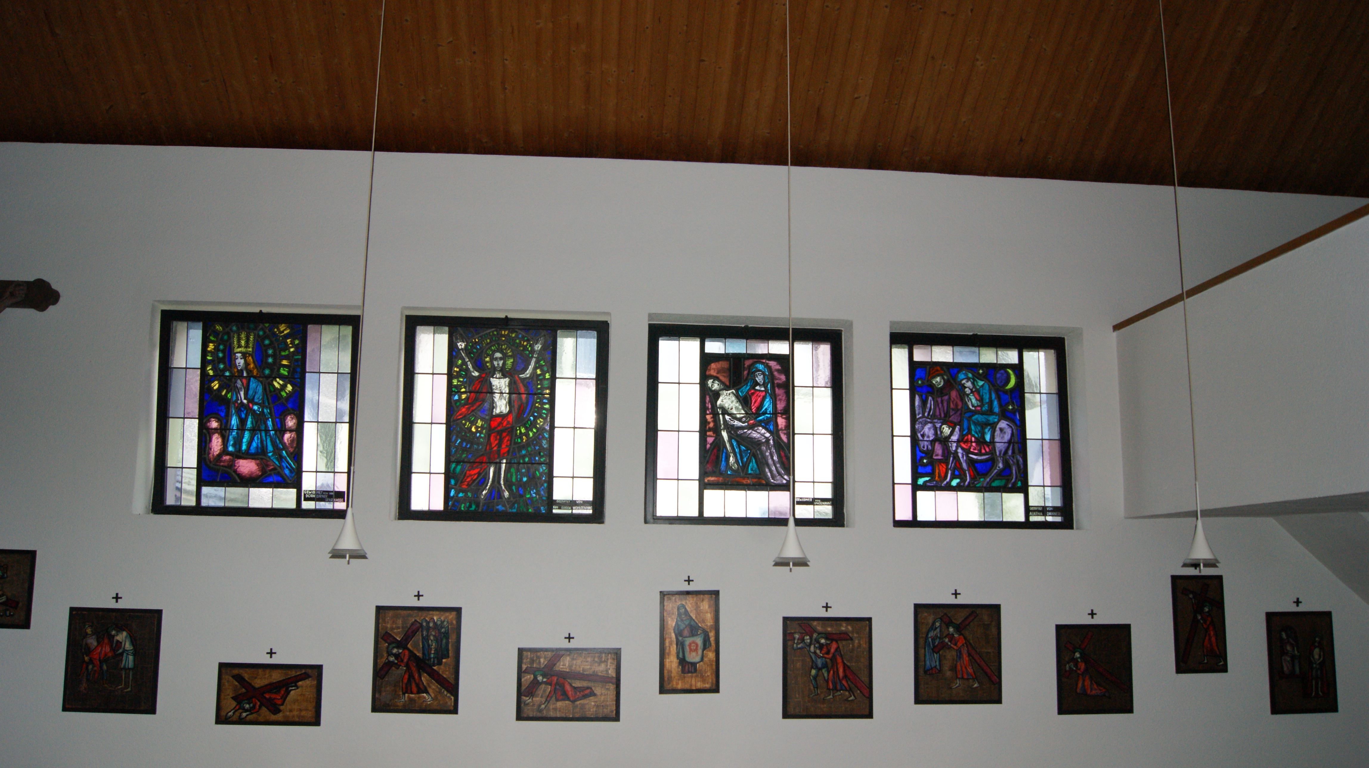 Lourdes Chapel in the hamlet Mühlebach, Dornbirn, Vorarlberg, Austria. Glass pictures on the right and Stations of the Cross.